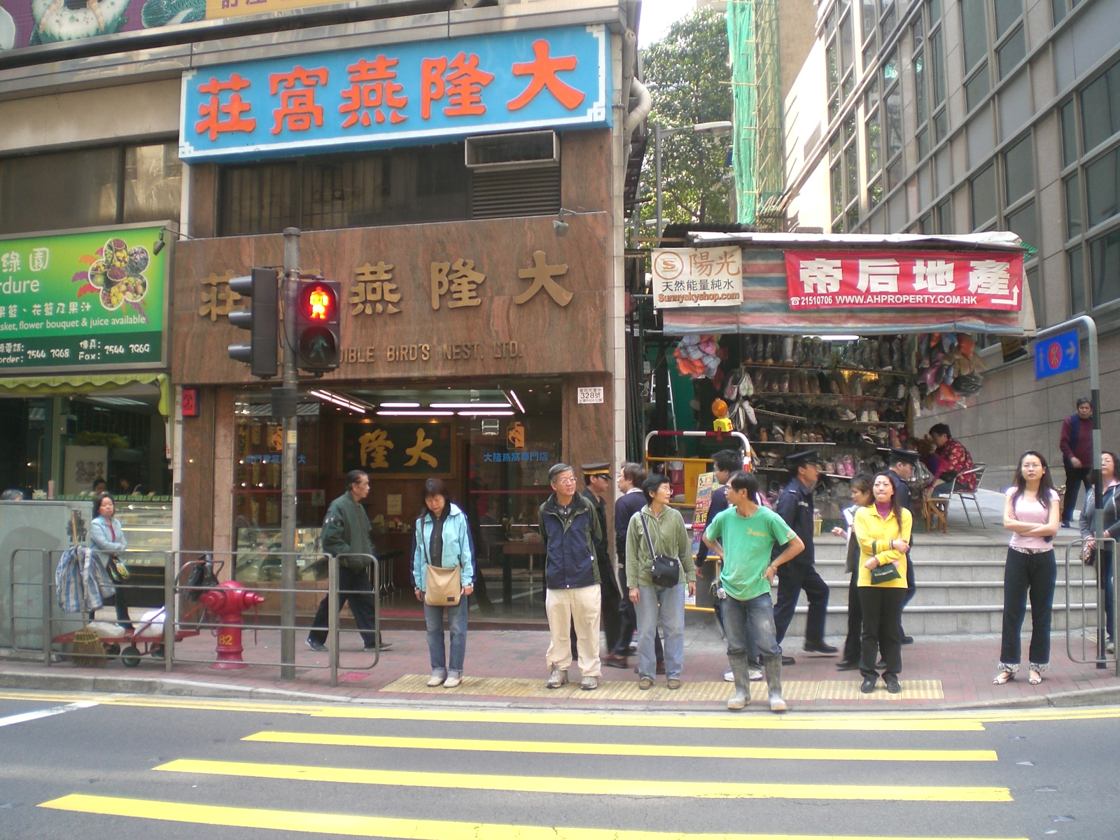 皇后大道中, Traffic lights in Queen's Road Central, Sheung Wan, Hong Kong